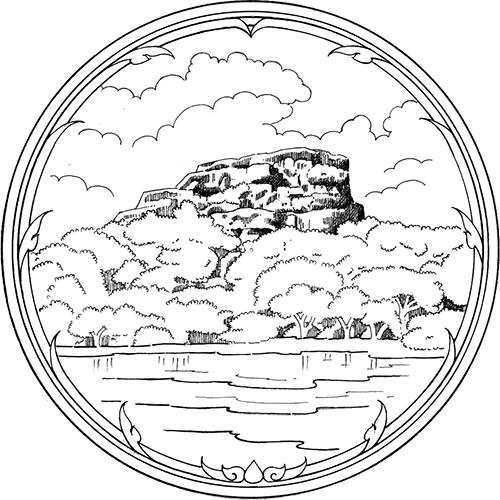 Official Seal of Bueng Kan Province of Thailand, announced in the Royal Thai Government Gazette in March 2, 2012 (see the sources below).